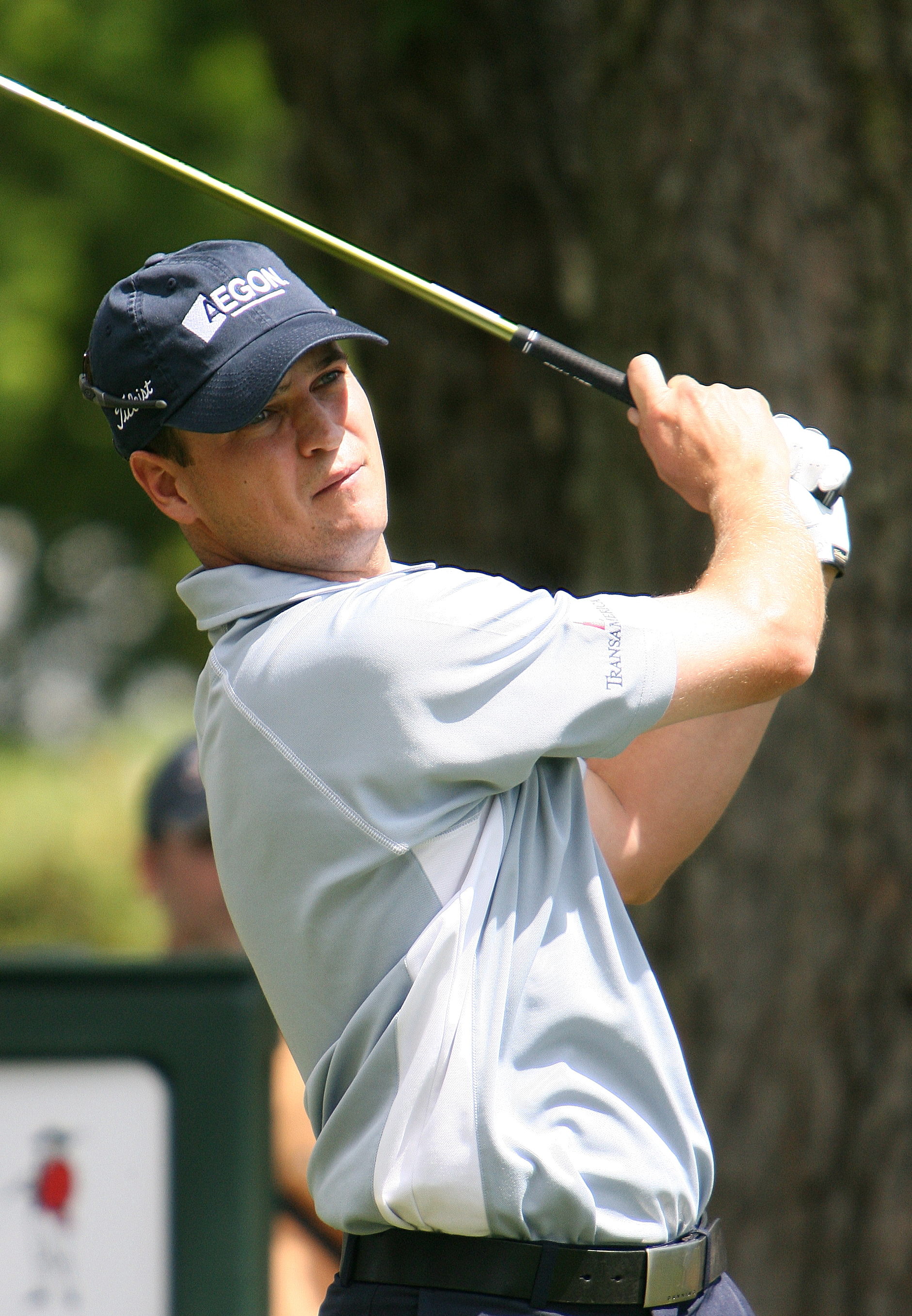 An image of golfer Zach Johnson on tour in 2007.